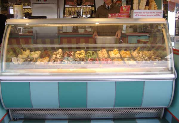 English ice cream parlour